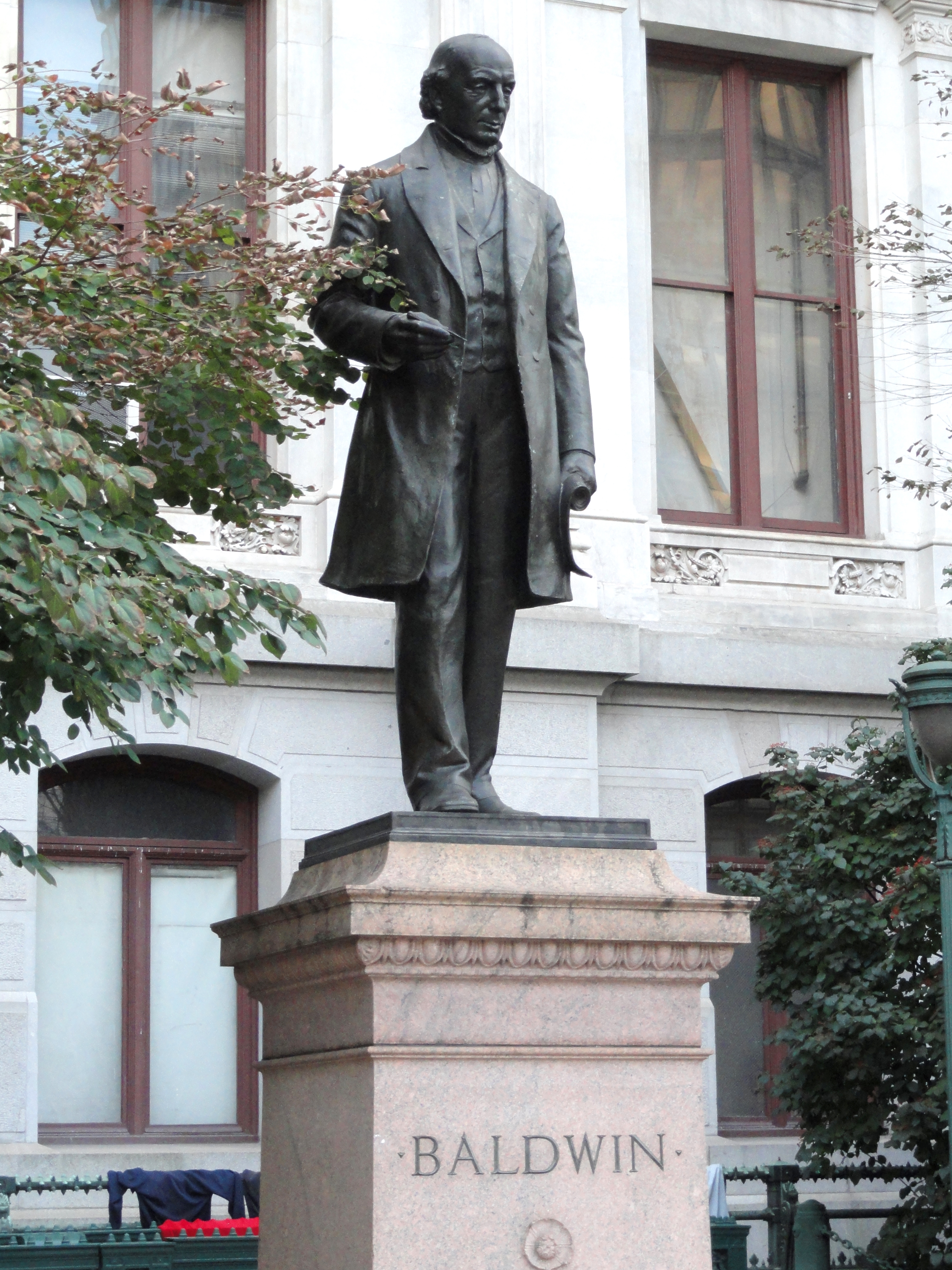 Monument to Matthias William Baldwin by Herbert Adams, beside City Hall, Philadelphia, Pennsylvania, USA. Statue created in 1905, and hence now in the public domain because first published in the United States before 1923.